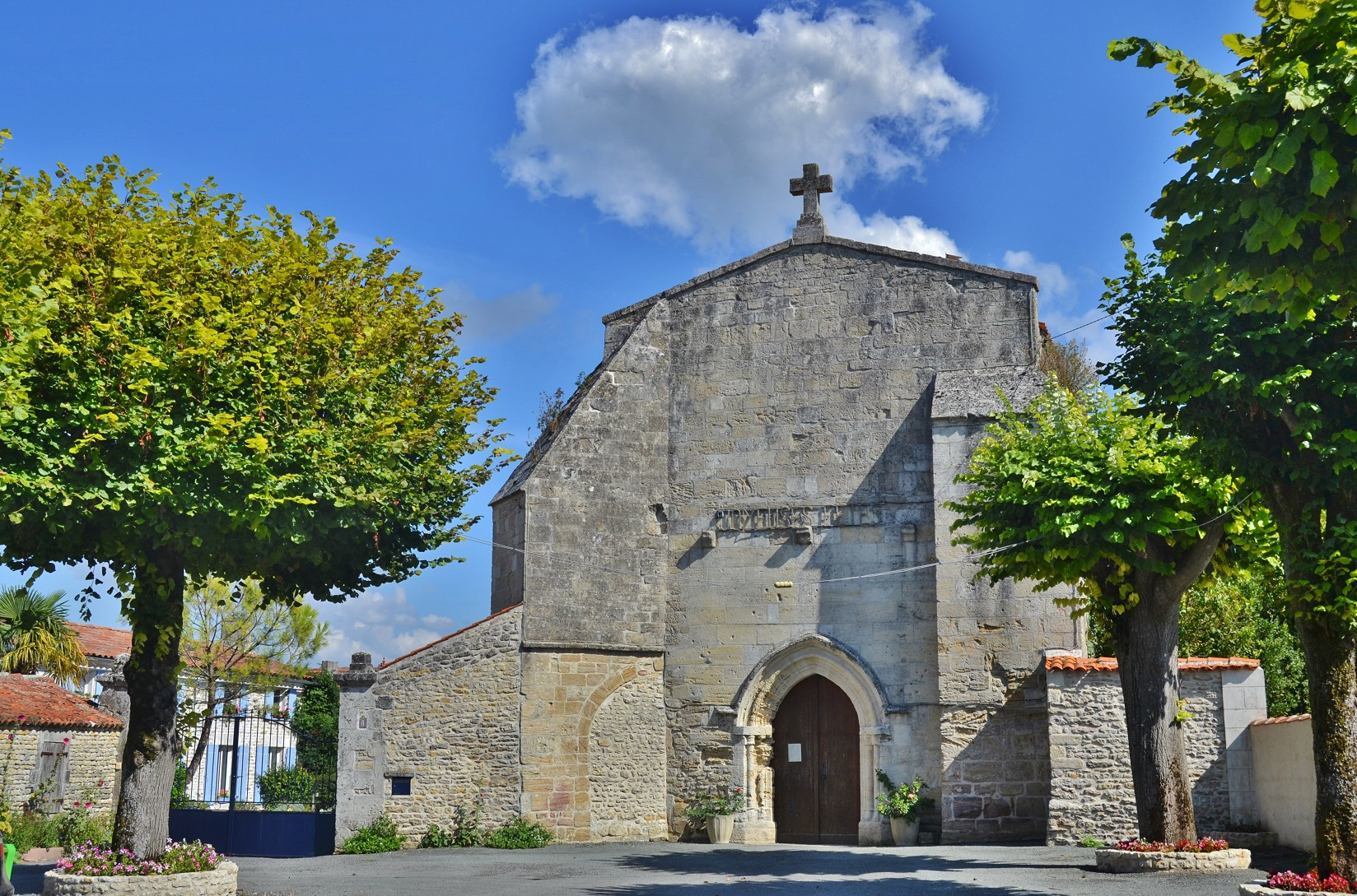 église St Crepin